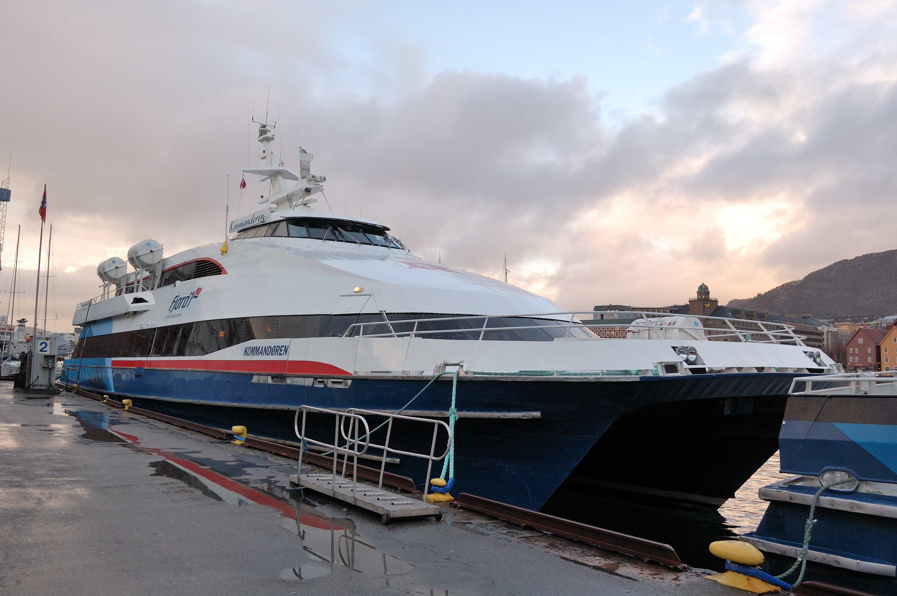 The Fjord1 company's passenger ship Kommandøren in the harbour of Bergen, Norway; first ship of type Flying Cat 40m